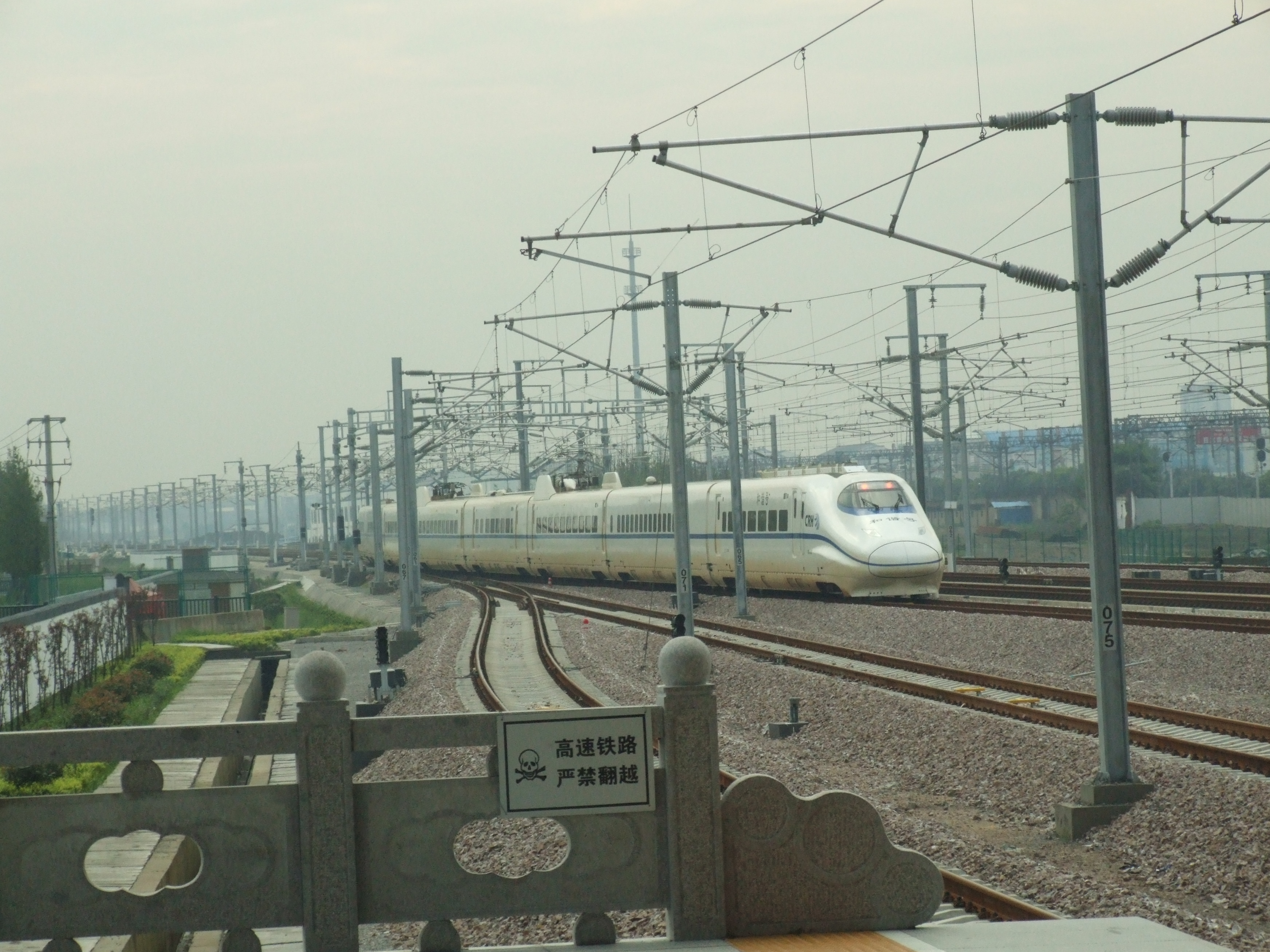 CRH on the HuNing(from Shanghai to Nanjing) High-speed Railway